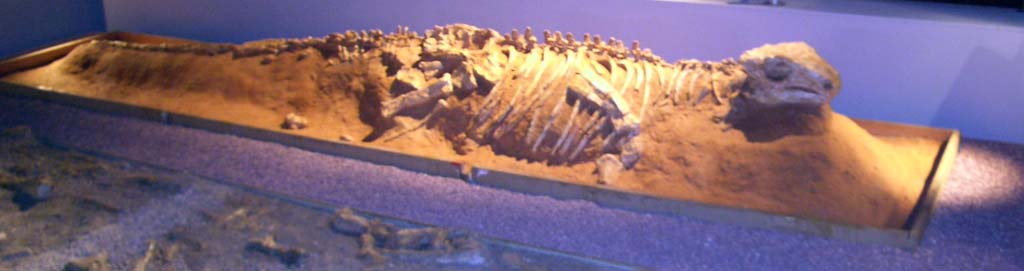 Pinacosaurus skeleton displayed in Hong Kong Science Museum